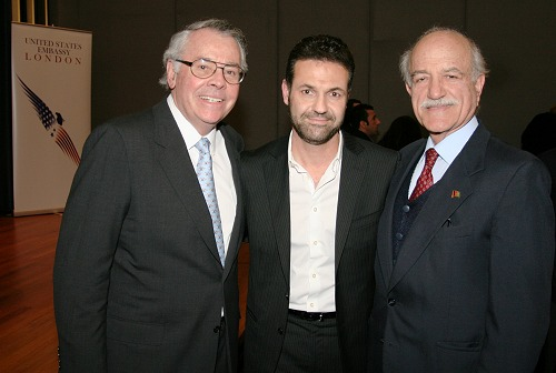 (From left) Ambassador Tuttle, Kite Runner author Khaled Hosseini, and Afghan Ambassador Dr. Rahim Sherzoy.